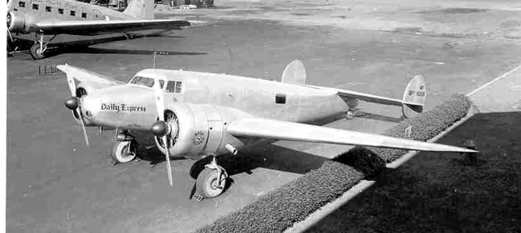 Flew the Coronation photos from London to New York.